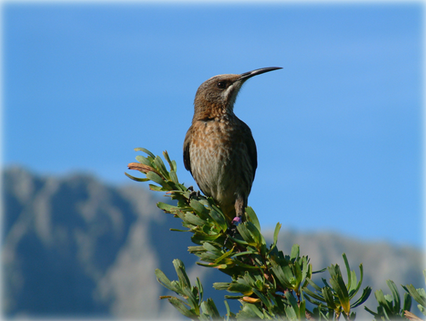 Cape sugarbird (Promerops cafer)